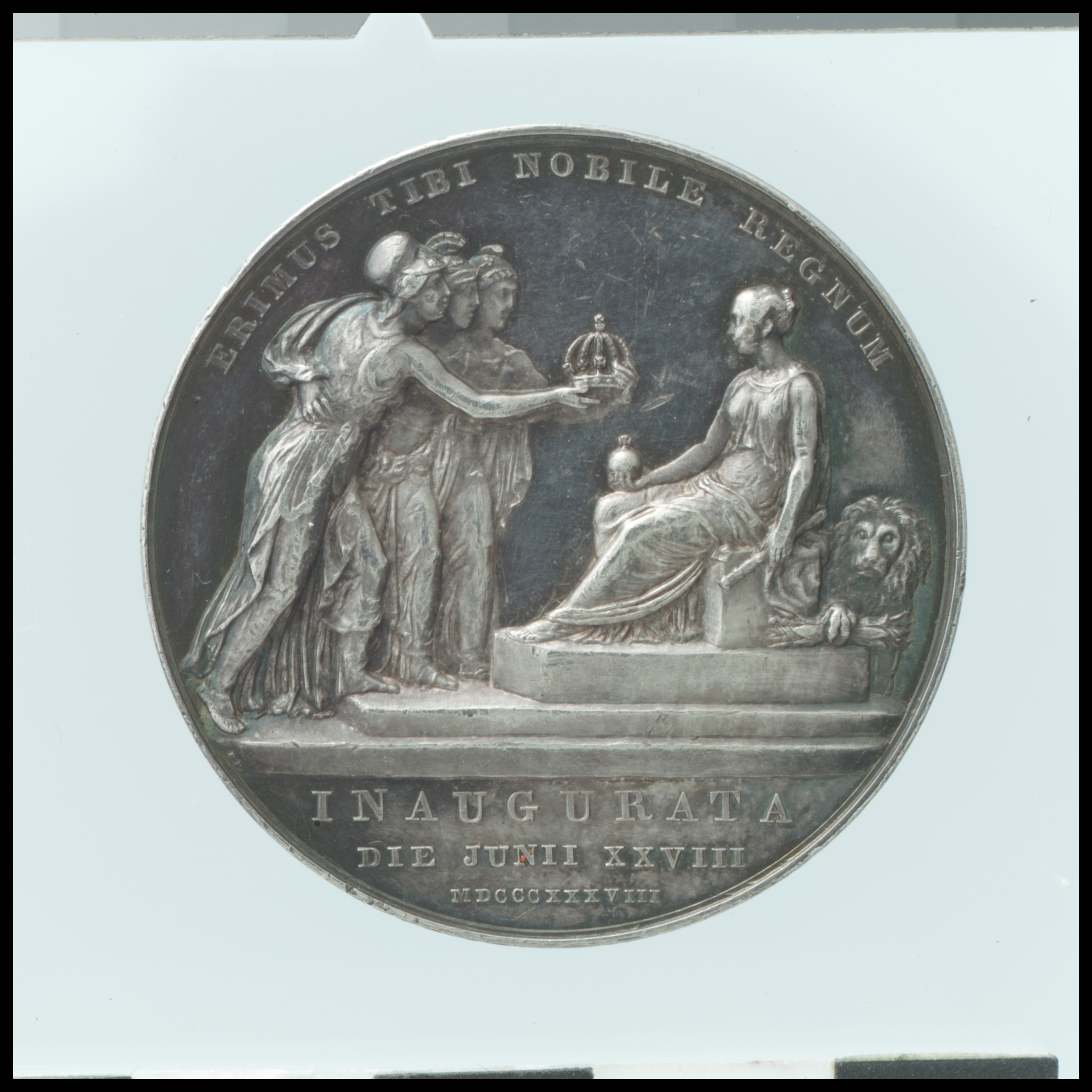 British; Medal; Medals and Plaquettes